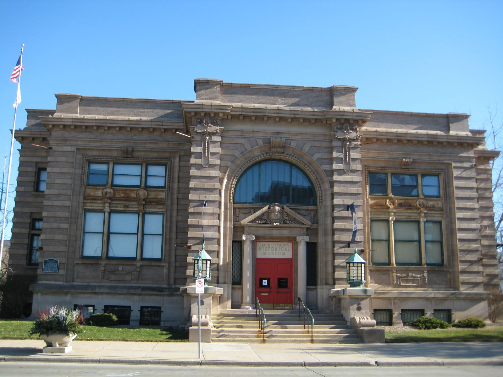 Racine County Historical Museum